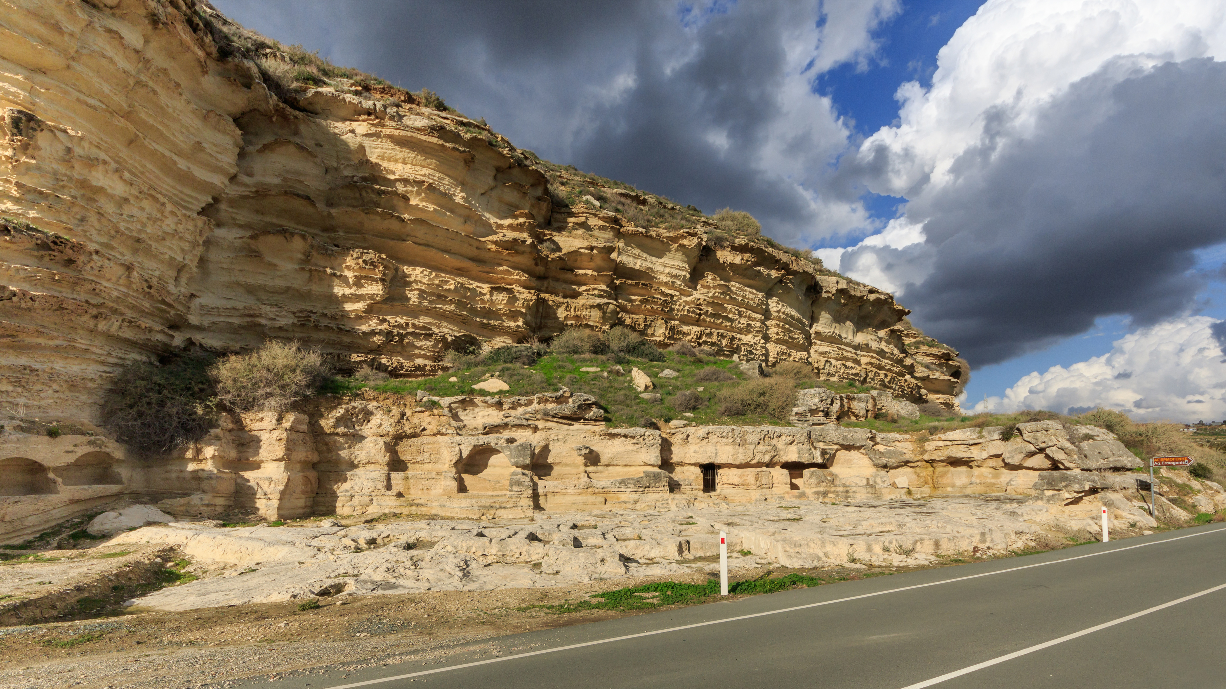 Ancient town of Kourion near Limassol, Cyprus. View from the road.